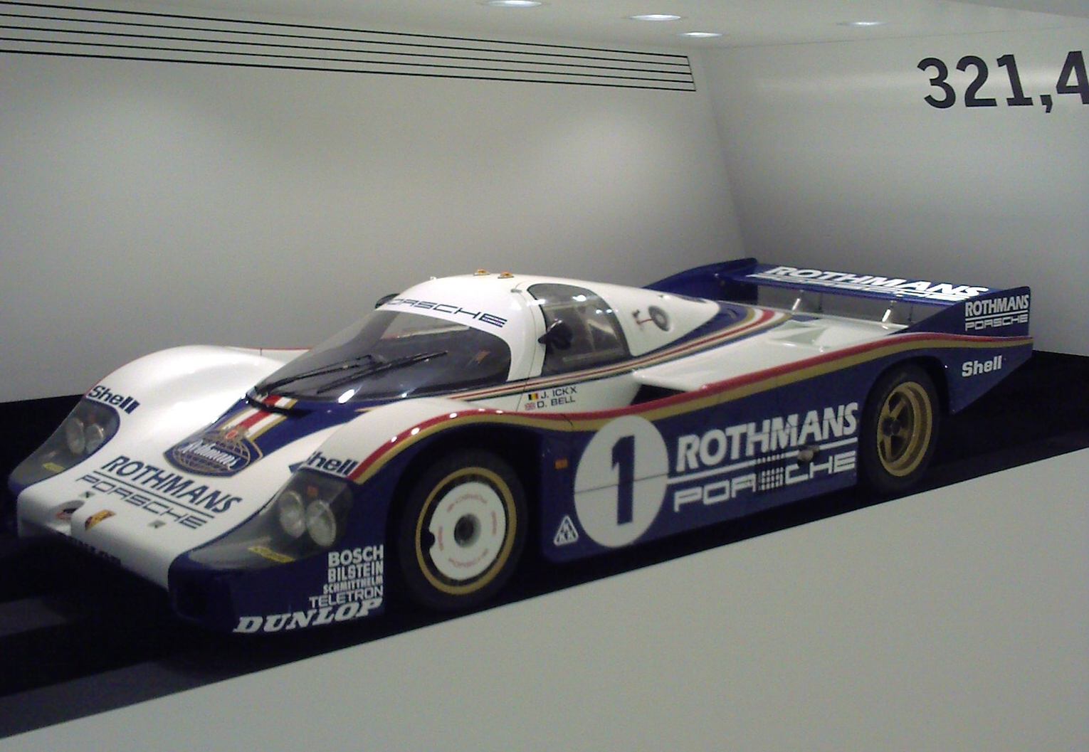 Porsche 956 (low drag version) - Ickx-Bell - 1983 Le Mans winner at Porschemuseum in Zuffenhausen (Germany). This car is hung to the roof, because it could theoretically run upside down at the speed of 321,4 kph. This photo is flipped.